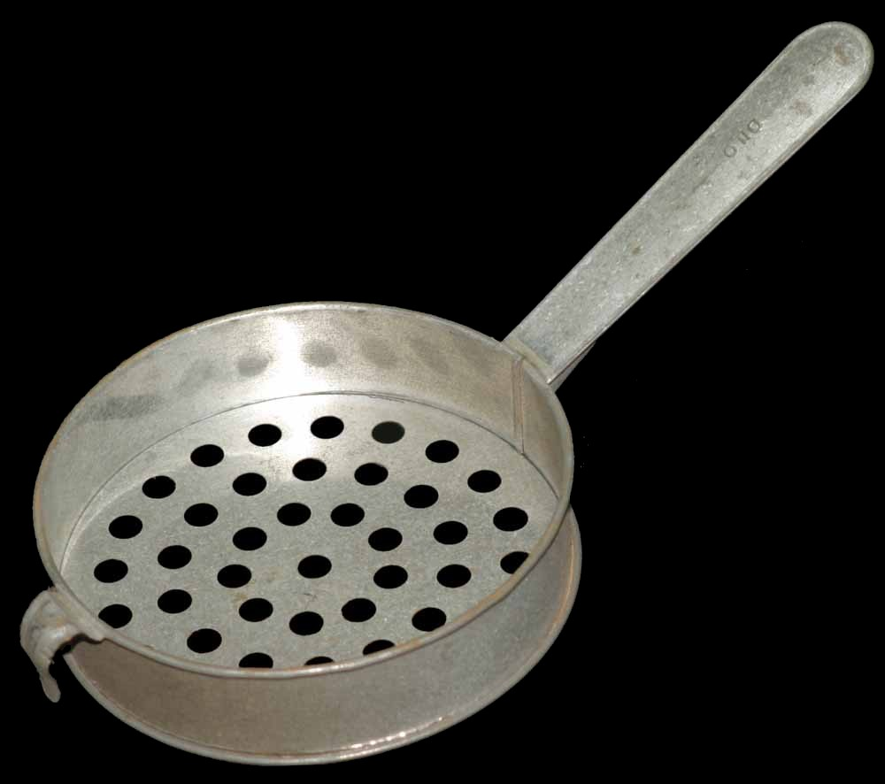 Tinned metal strainer used to make Halushky (a Slavic [usually potato] dumpling) noodles by holding it over boiling water and dropping very thin dough through it.